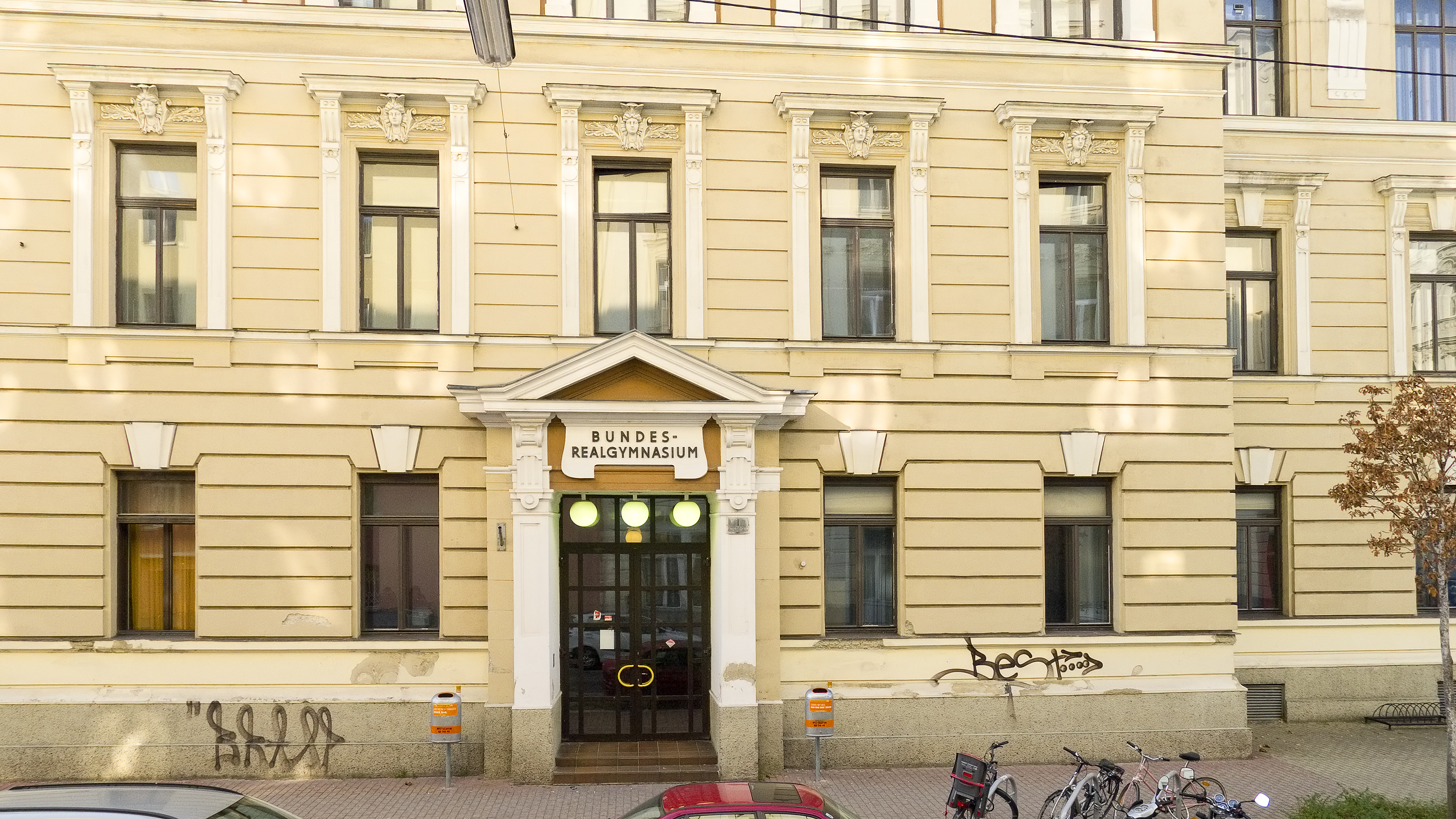 High school Brigittenauer Gymnasium in Vienna 20